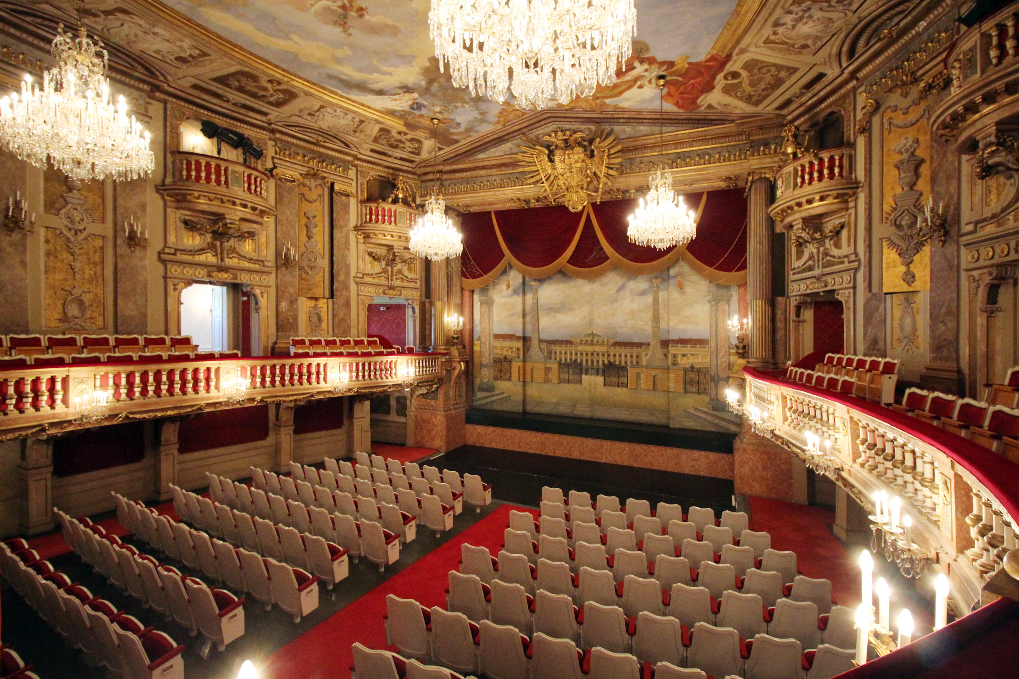 Schlosstheater Schönbrunn Dieses Bild wurde anlässlich des österreichischen Tags des Denkmals 2014 in Wien eingereicht.